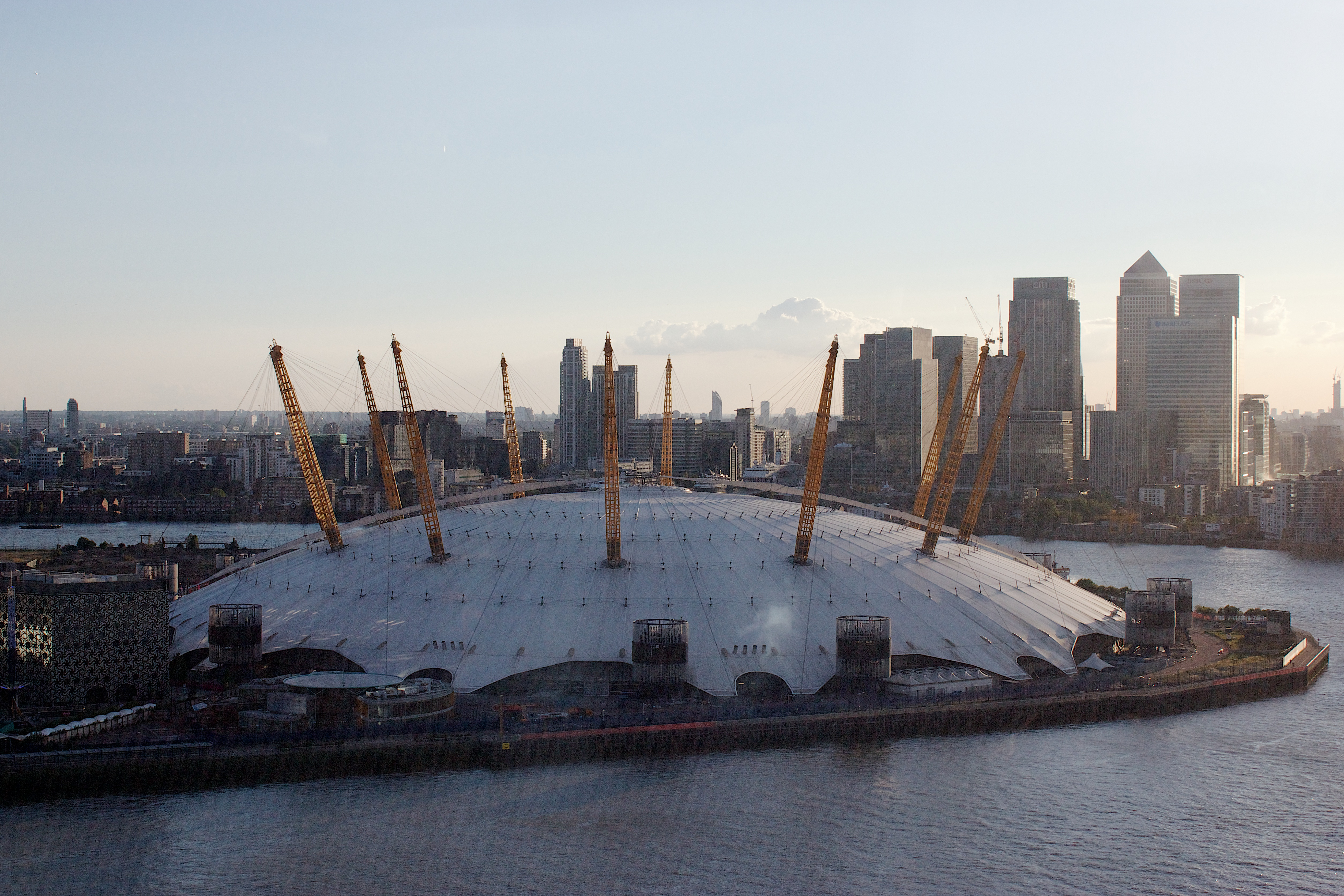 The O2 Arena viewed from the Emirates cable car